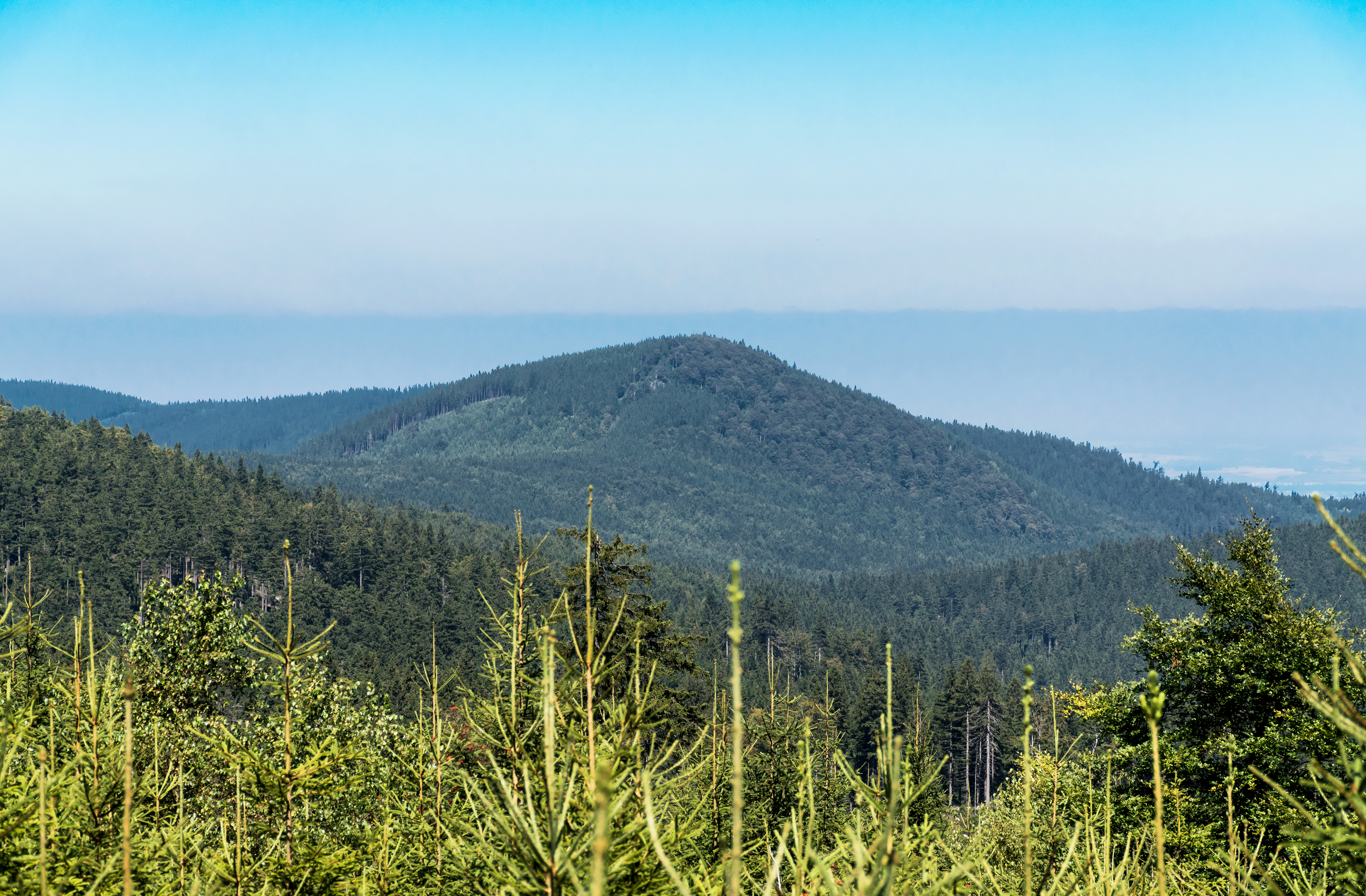 Rudka, Śnieżnik Mountains, Sudetes